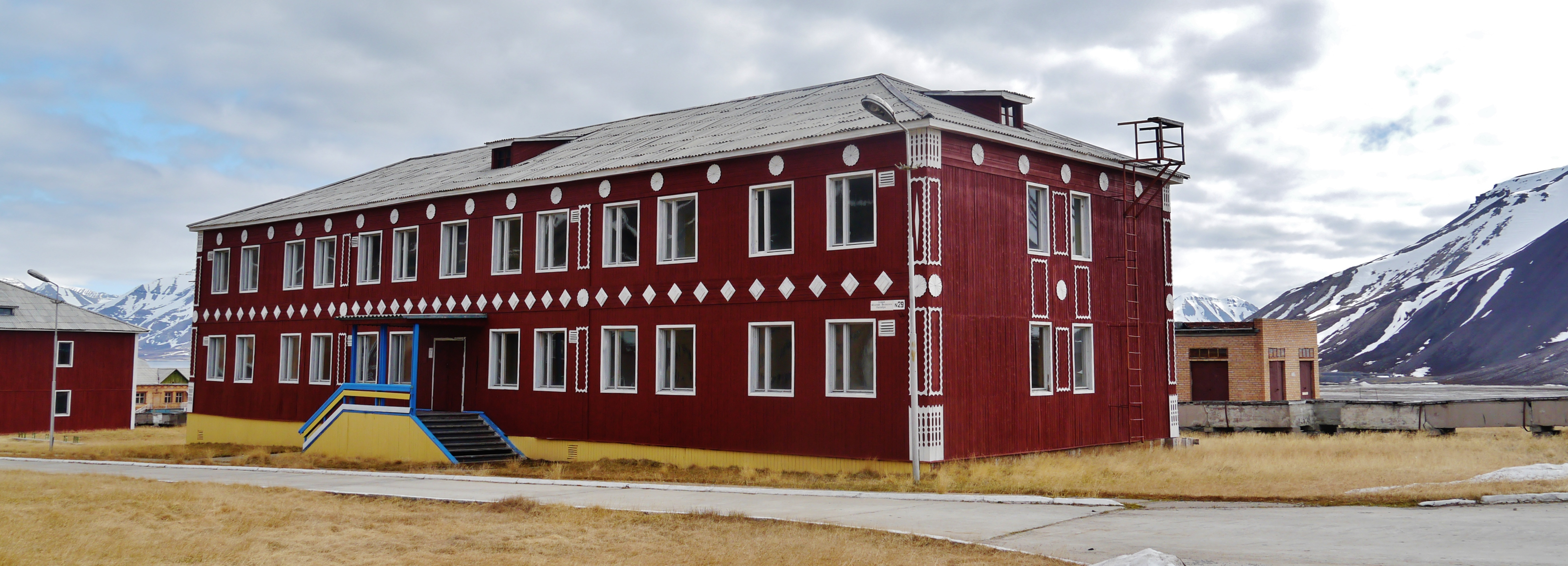 Pyramiden, Spitsbergen, Norway